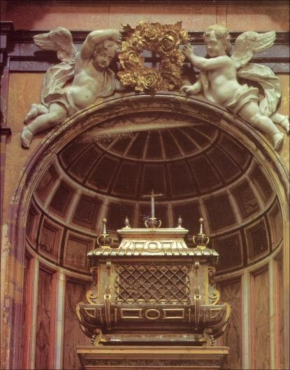 Silver urn with relics of Saint Fructus, Valentin and Engratia of Duratón, at the Catedral de Segovia